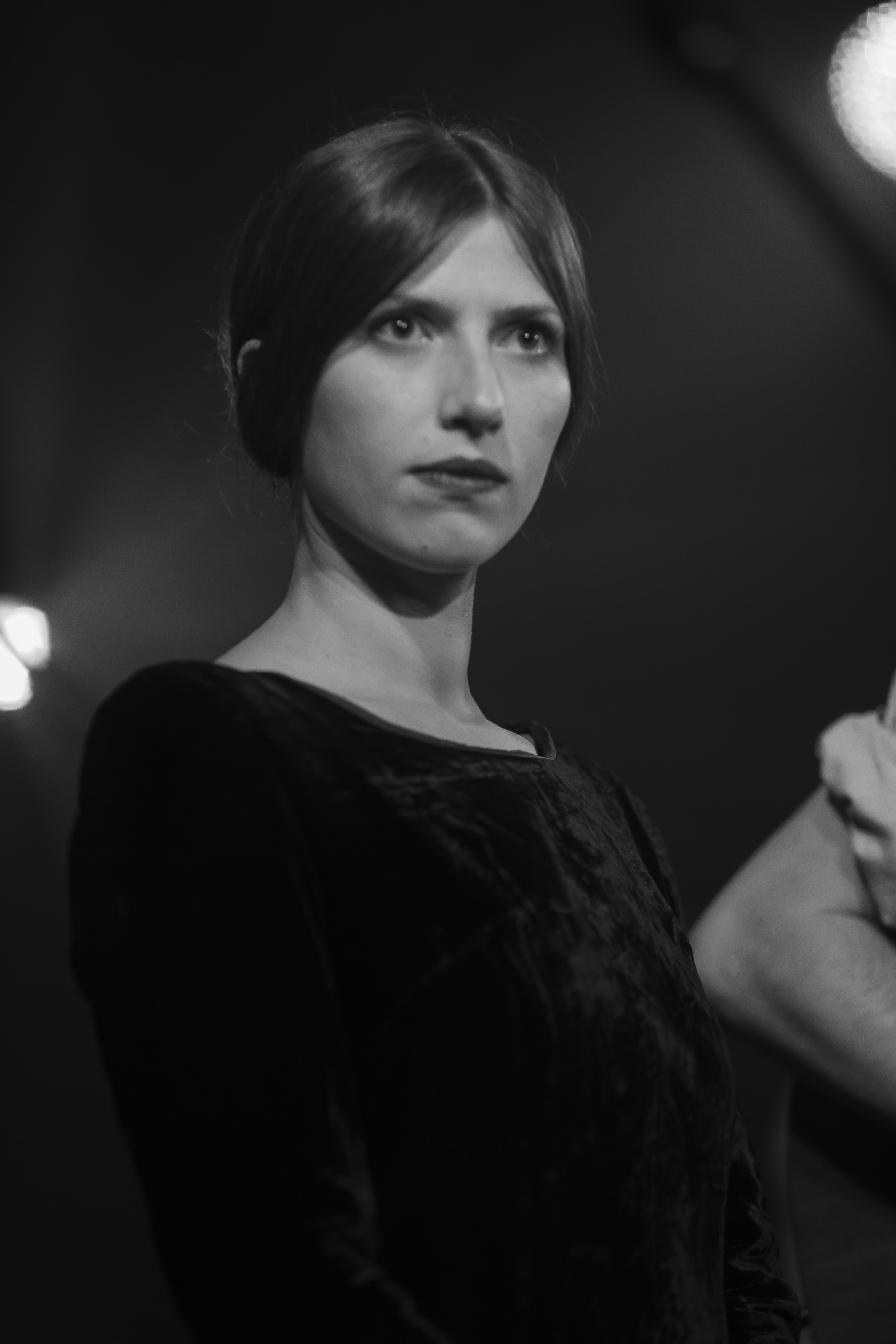 Aldous Harding performing at Sydney's Oxford Art Factory on 21 November 2015